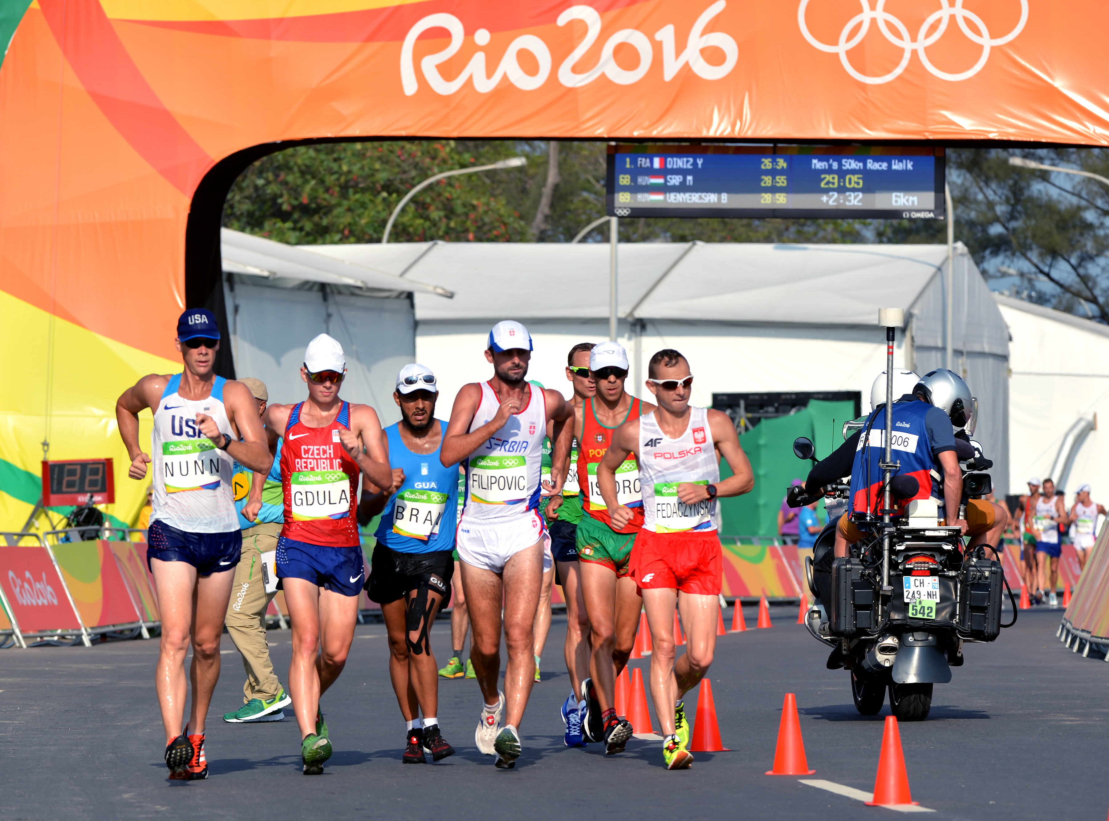 Staff Sgt. John Nunn of the U.S. Army World Class Athlete Program finishes 42nd in the men's 50-kilometer race walk with a time of 4 hours, 16.12 seconds Aug. 19 at the Rio Olympic Games in Rio de Janeiro. Reigning world champion Matej Toth of Slovakia won the race in 3:40.58, followed by silver medalist Jared Tallent (3:41.16) of Australia and bronze medalist Evan Dunfee (3:41.38) of Canada. U.S. Army photo by Tim Hipps, IMCOM Public Affairs #SoldierOlympians #ArmyOlympians #ArmyTeam #GoArmy #ArmyStrong #TeamUSA #RoadToRio #Olympics